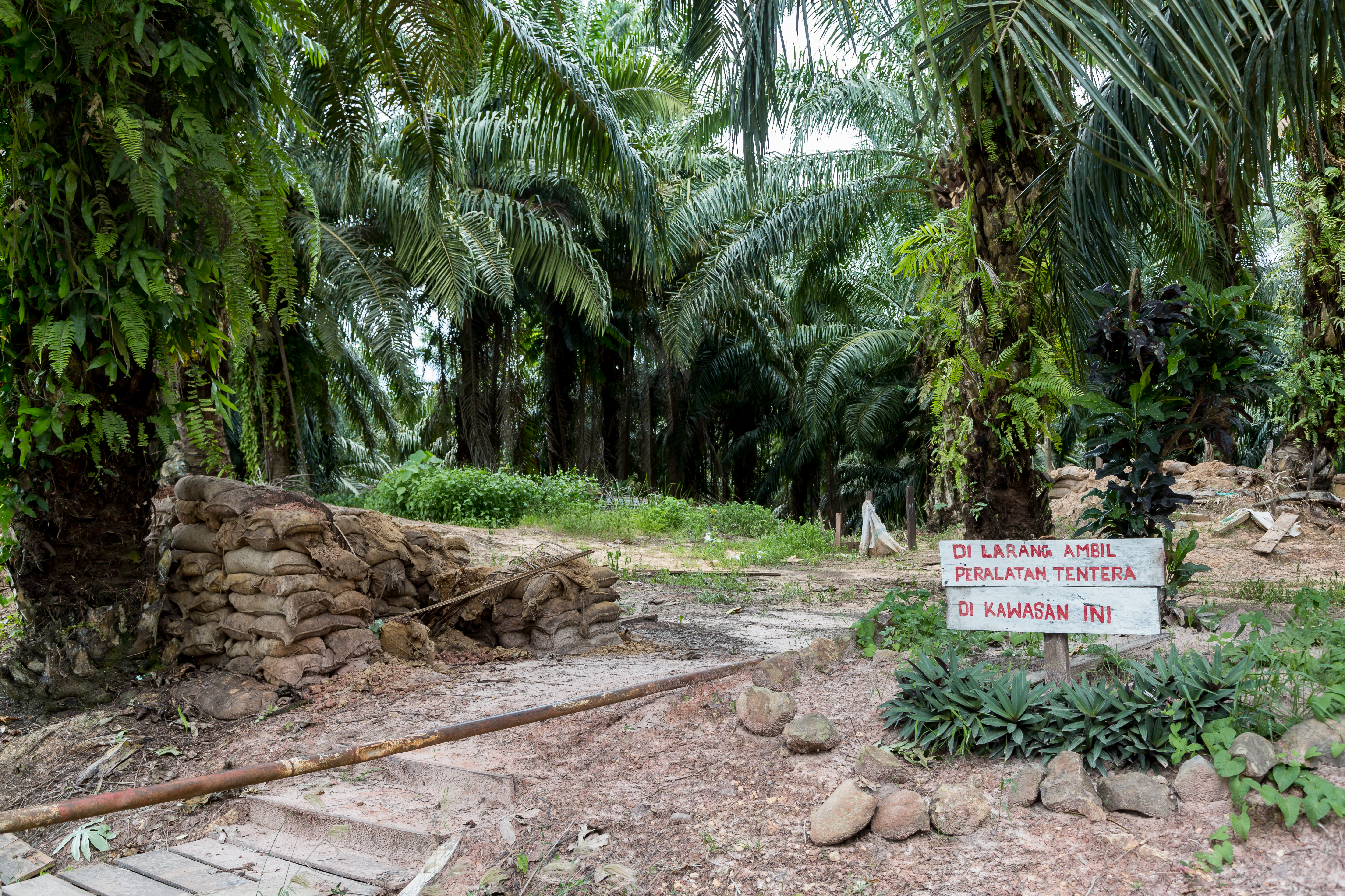 Tunku, Sabah: Military control station near Kg. Tanduo; used during Lahad Datu Standoff 2013